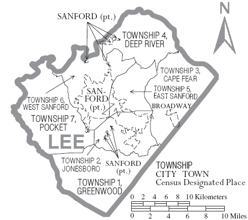 Map of Lee County, North Carolina, United States with township and municipal boundaries